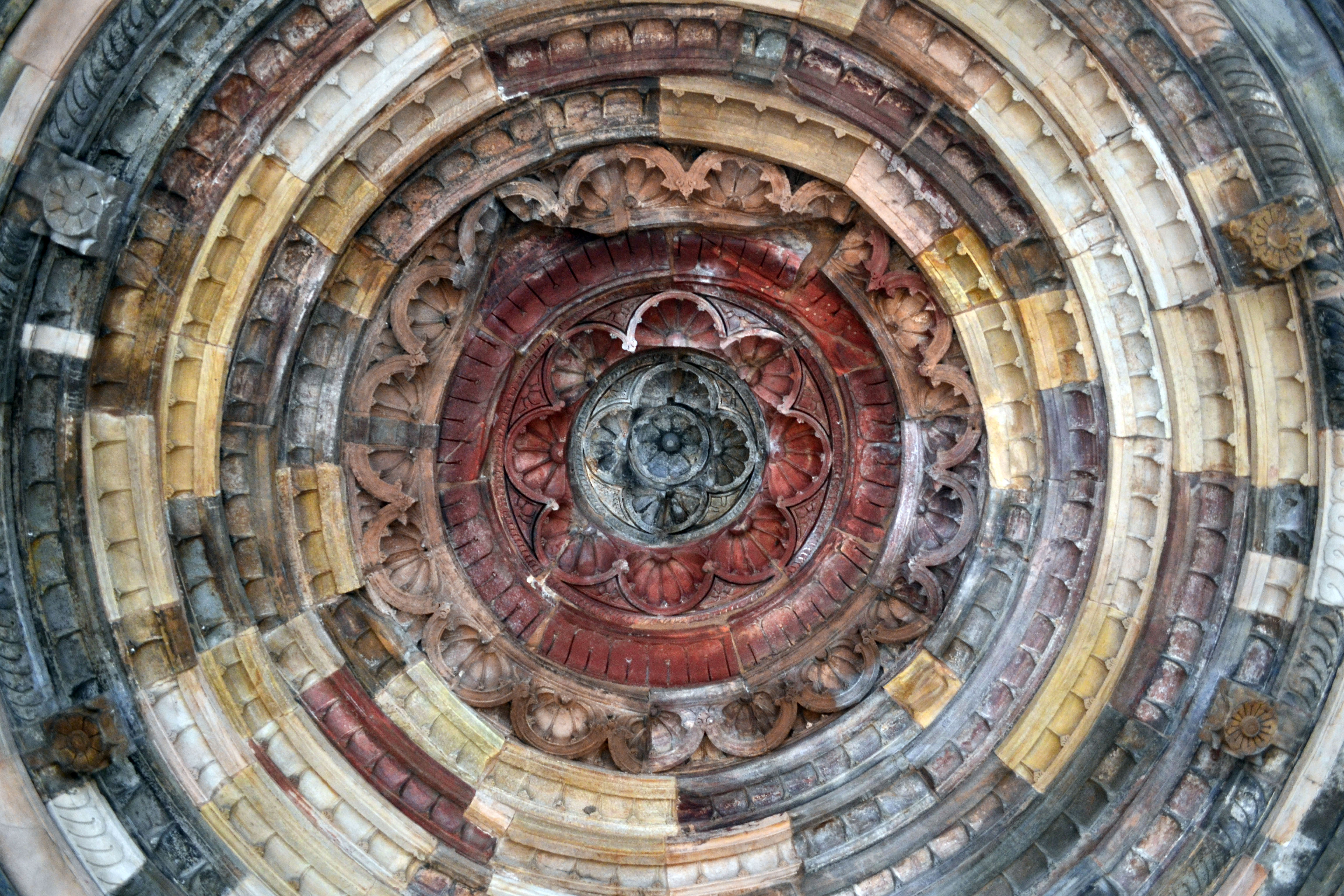 Beautiful different hued carvings on the ceiling in Qutab Minar Complex